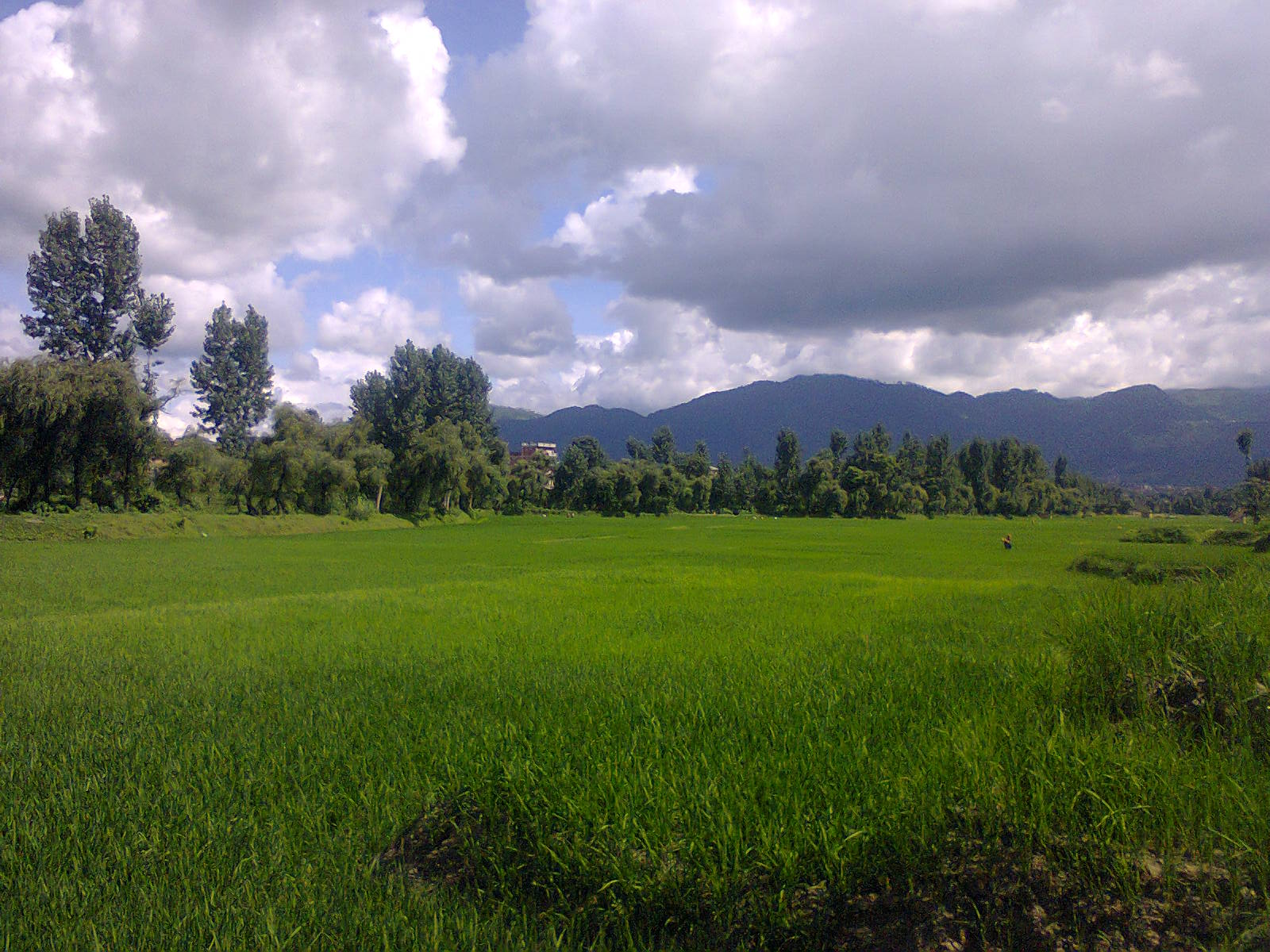 After Plotting Rice Plant